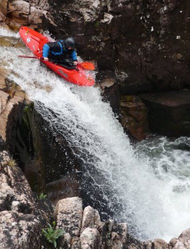 A kayaker running Right angle falls on the river Etive, Scotland.